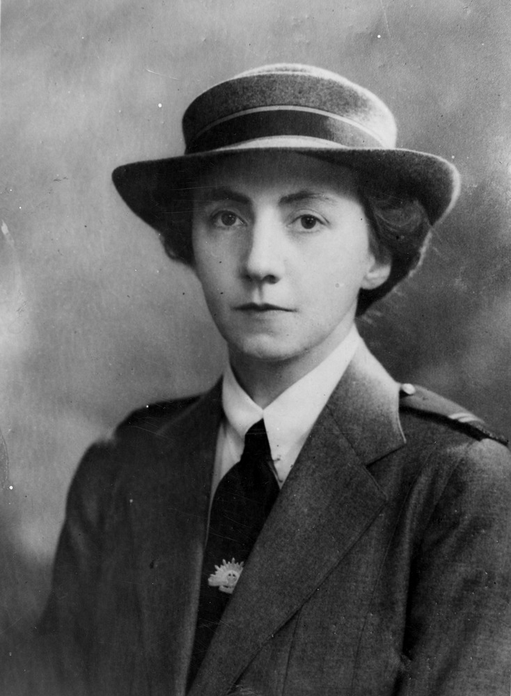 Olive Dorothy Paschke in uniform, from the State Library Victoria, Herald & Weekly Times Limited portrait collection.